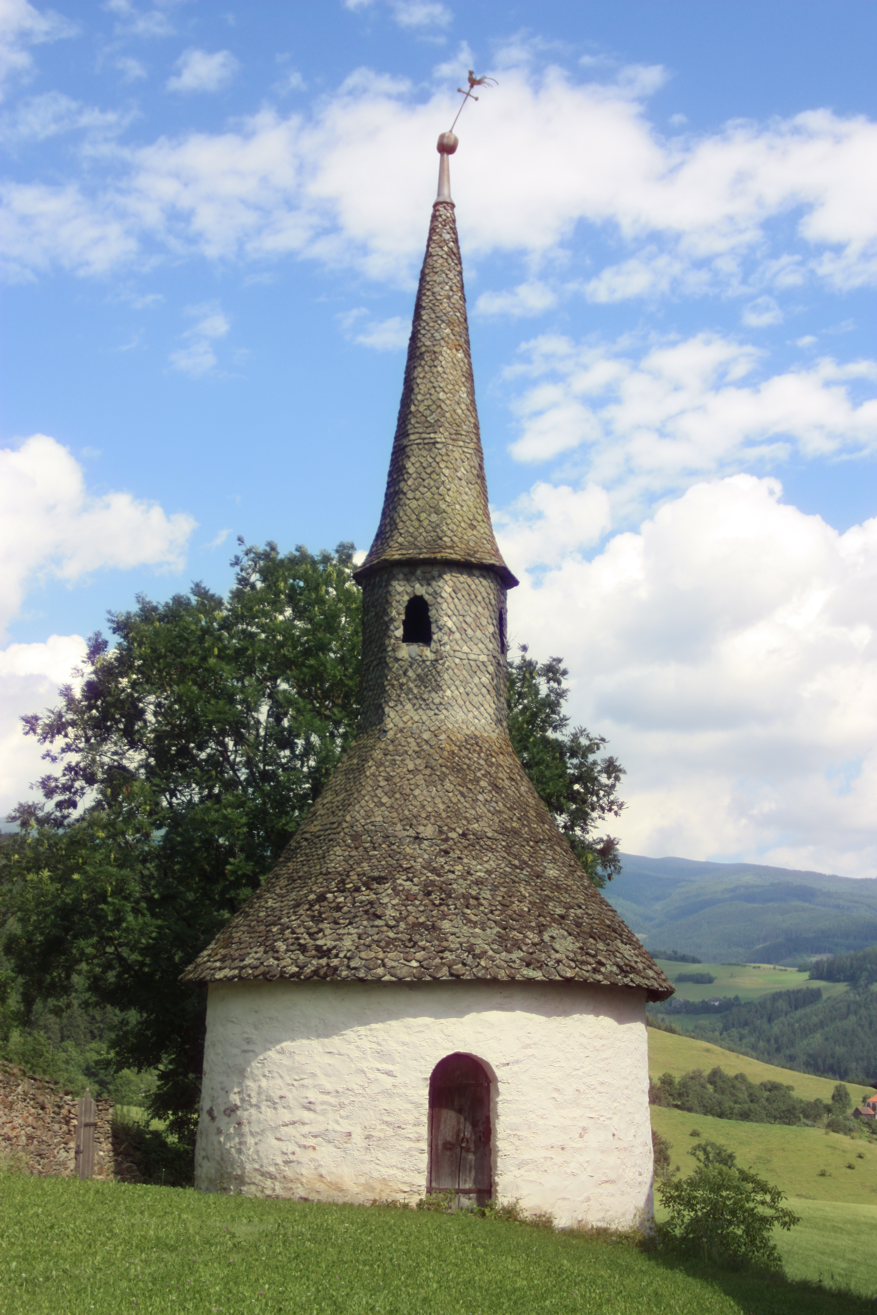 Ossuary of the church of Deinsberg Locality:Deinsberg Community:Guttaring District:Sankt Veit an der Glan State:Carinthia Country:Austria